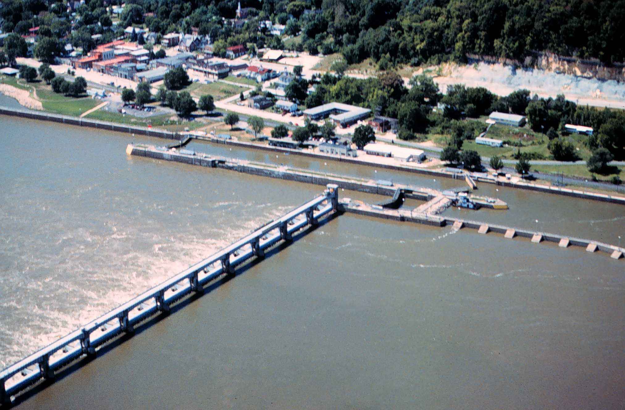 Mississippi River Lock and Dam number 24 near Clarksville, Missouri